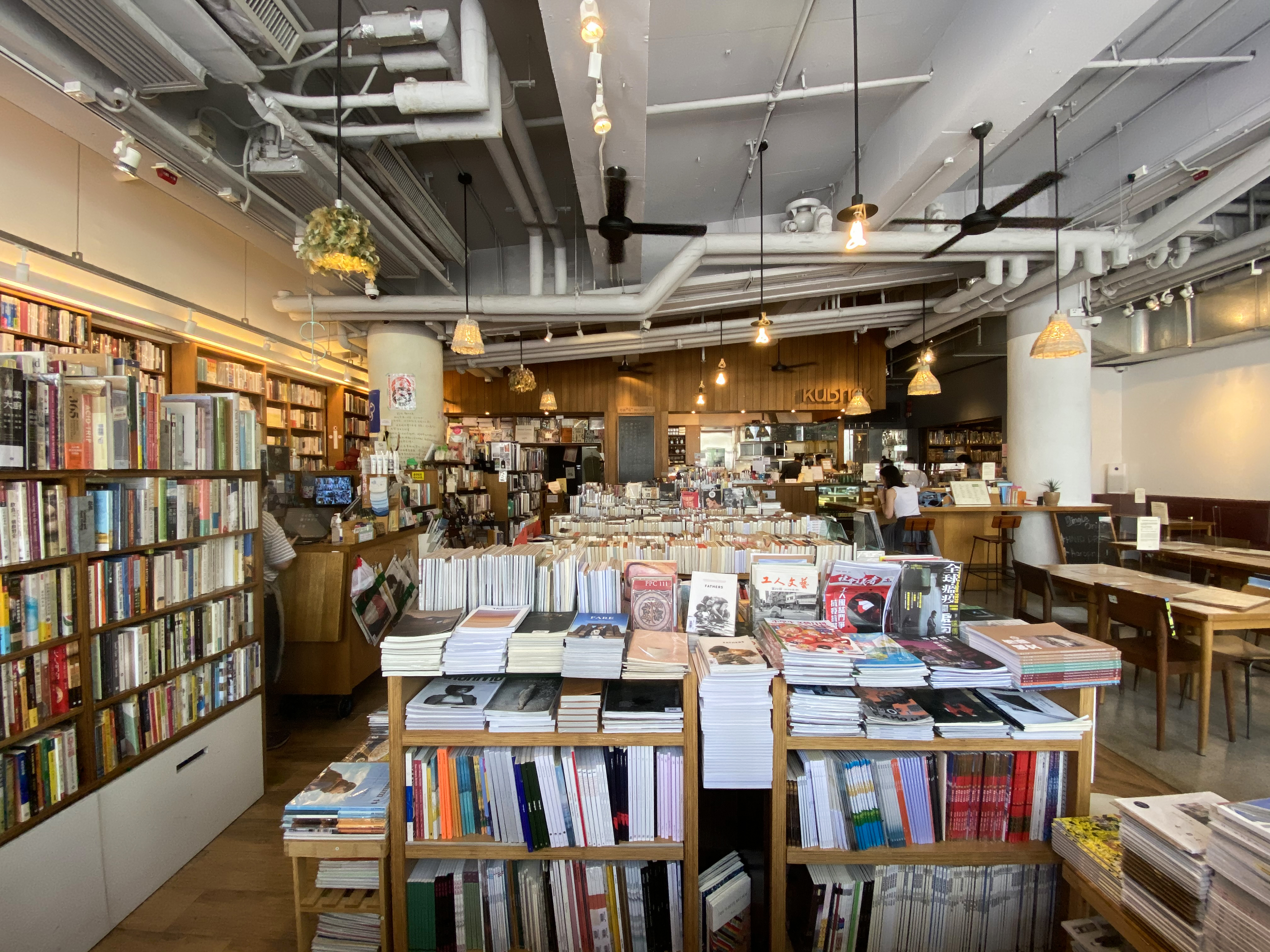 Broadway Cinematheque Kubrick